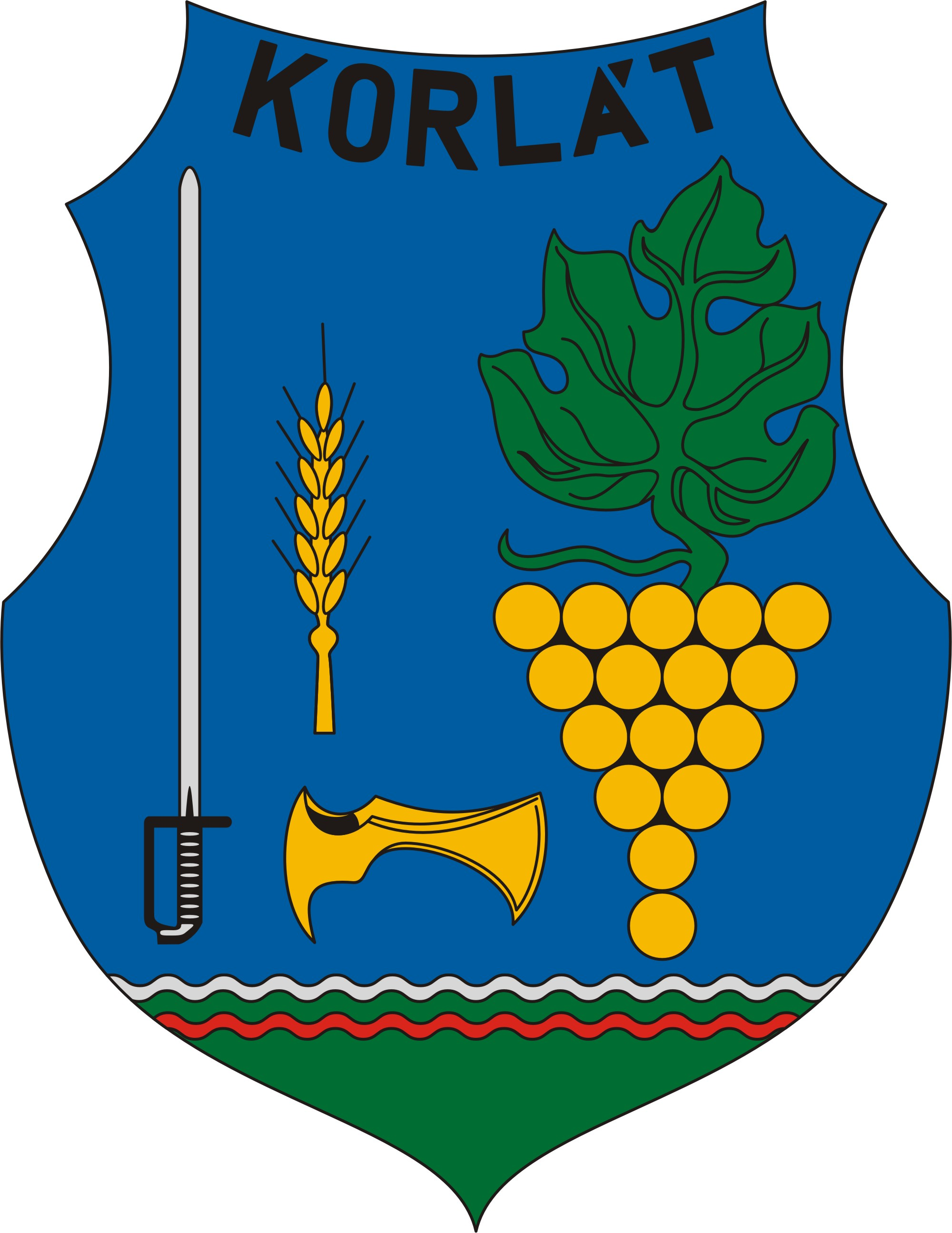 Coat of arms of Korlát, Hungary